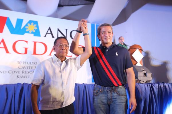 Vice President Jejomar C. Binay and Cavite governor Jonvic Remulla take their oaths as members of ​the United National Alliance (UNA) and Partido Magdalo during the signing of the unity covenant between the two parties.